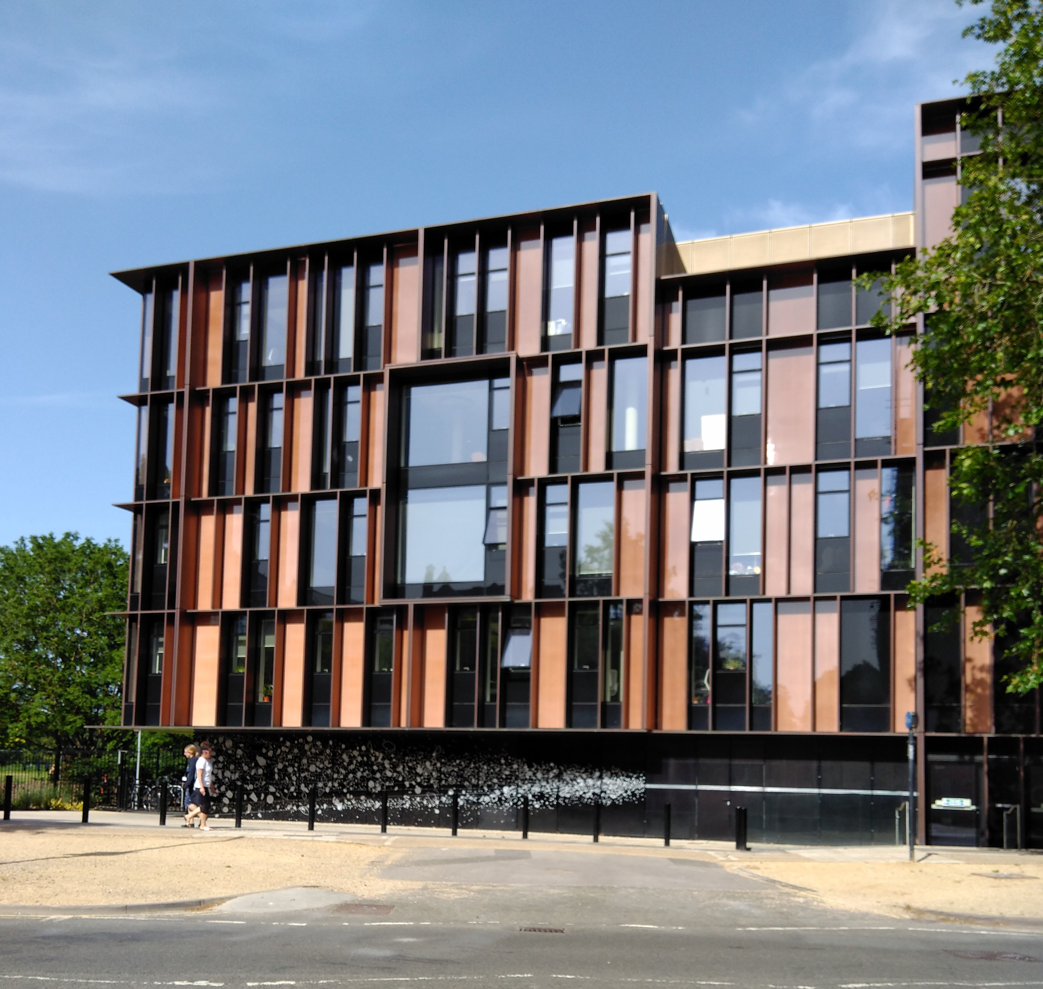 Beecroft Building, University of Oxford Department of Physics, Parks Road, Oxford, England (Hawkins\Brown Architects, opened 2018)